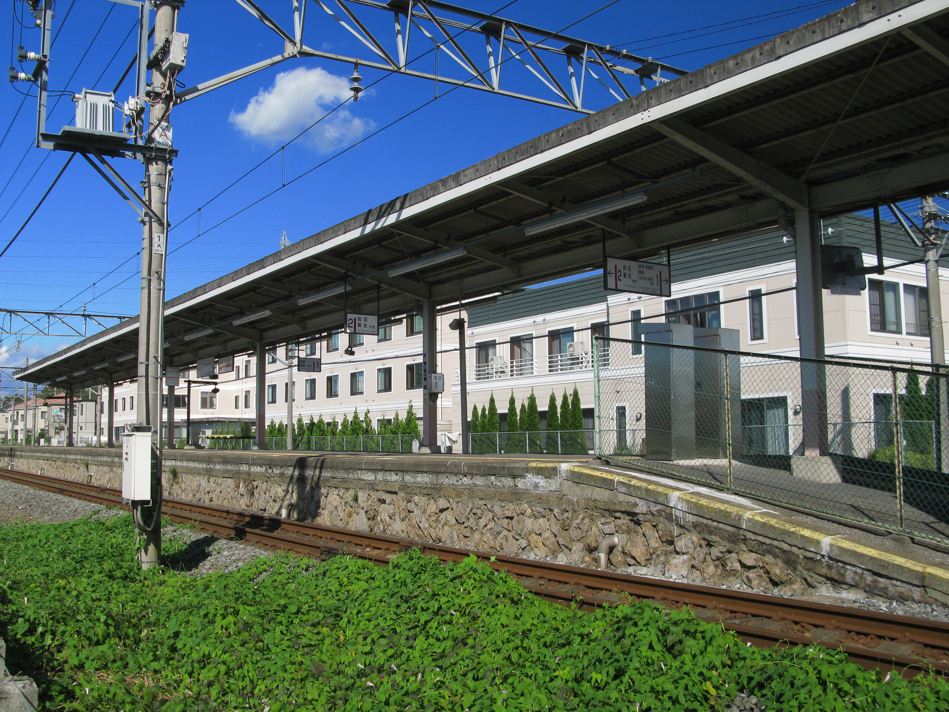 Horigome Station of the Tōbu Sano Line in Sano, Tochigi, Japan